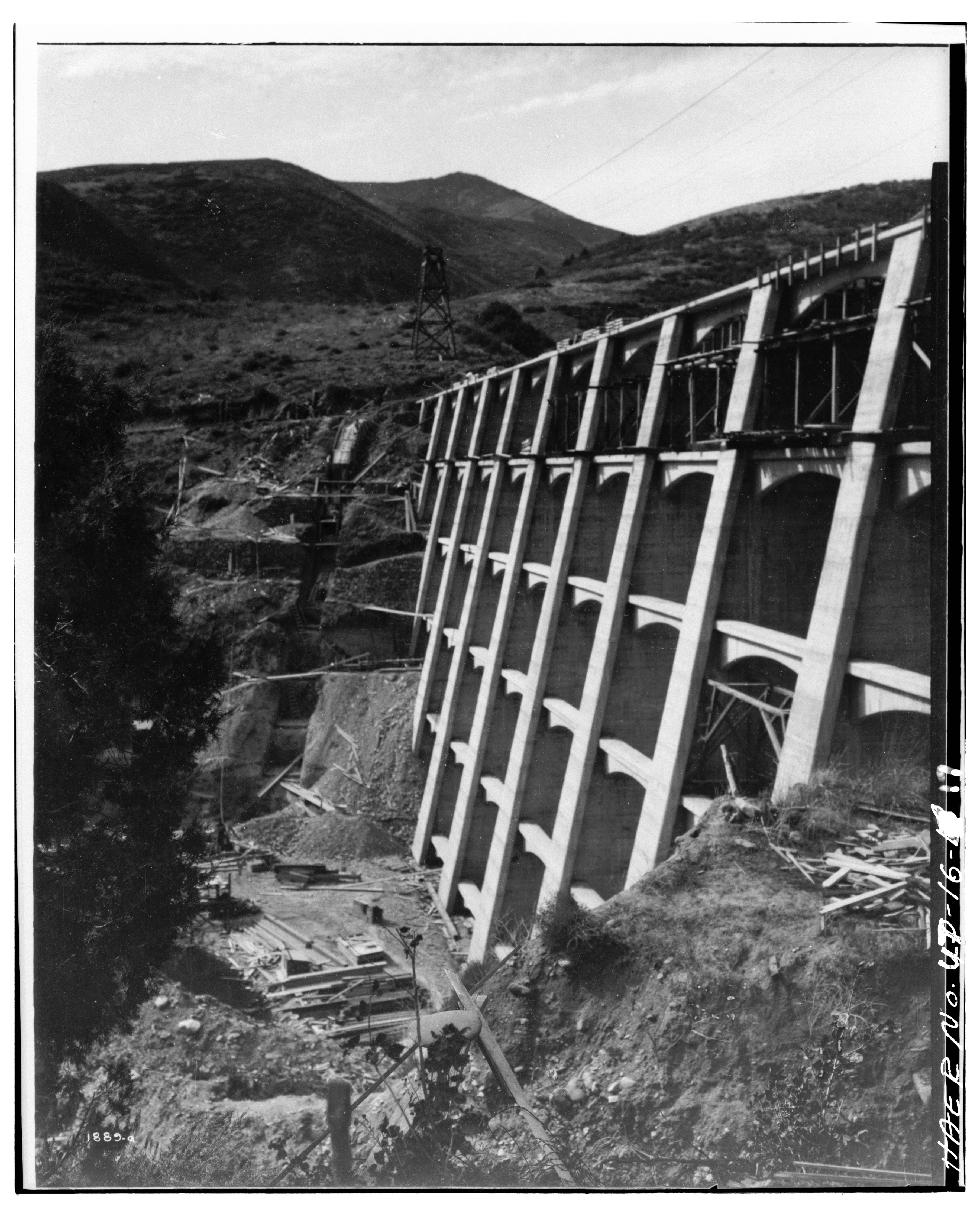 Mountain Dell Dam, near Salt Lake City, Utah Photocopy of a photograph (original in the Collection of the Salt Lake City Engineer's Office)--ca. 1925--GENERAL VIEW OF DOWNSTREAM SIDE OF DAM FOLLOWING COMPLETION OF CONSTRUCTION